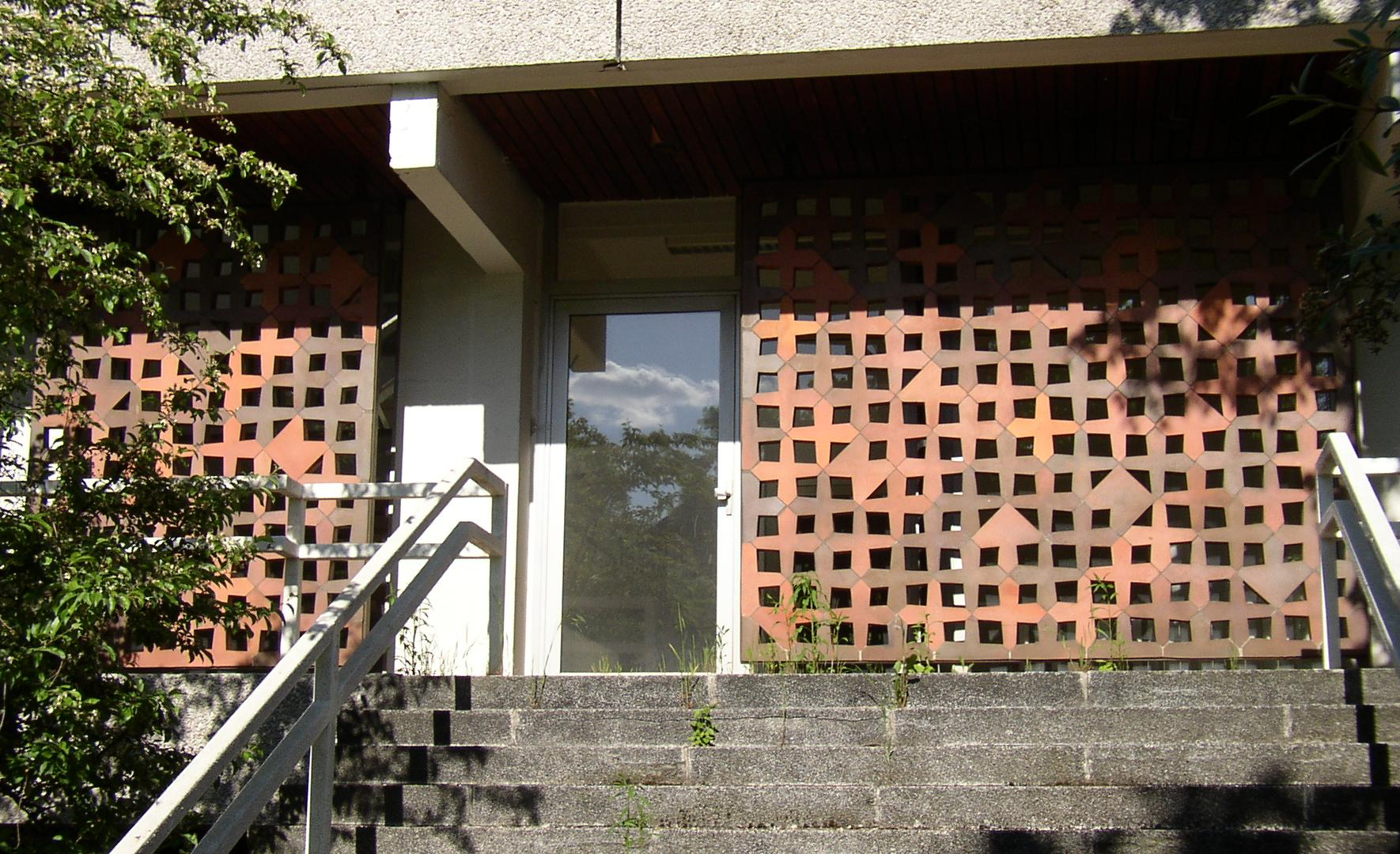 Facade of the former australian Embassy in Berlin-Niederschönhausen, Germany